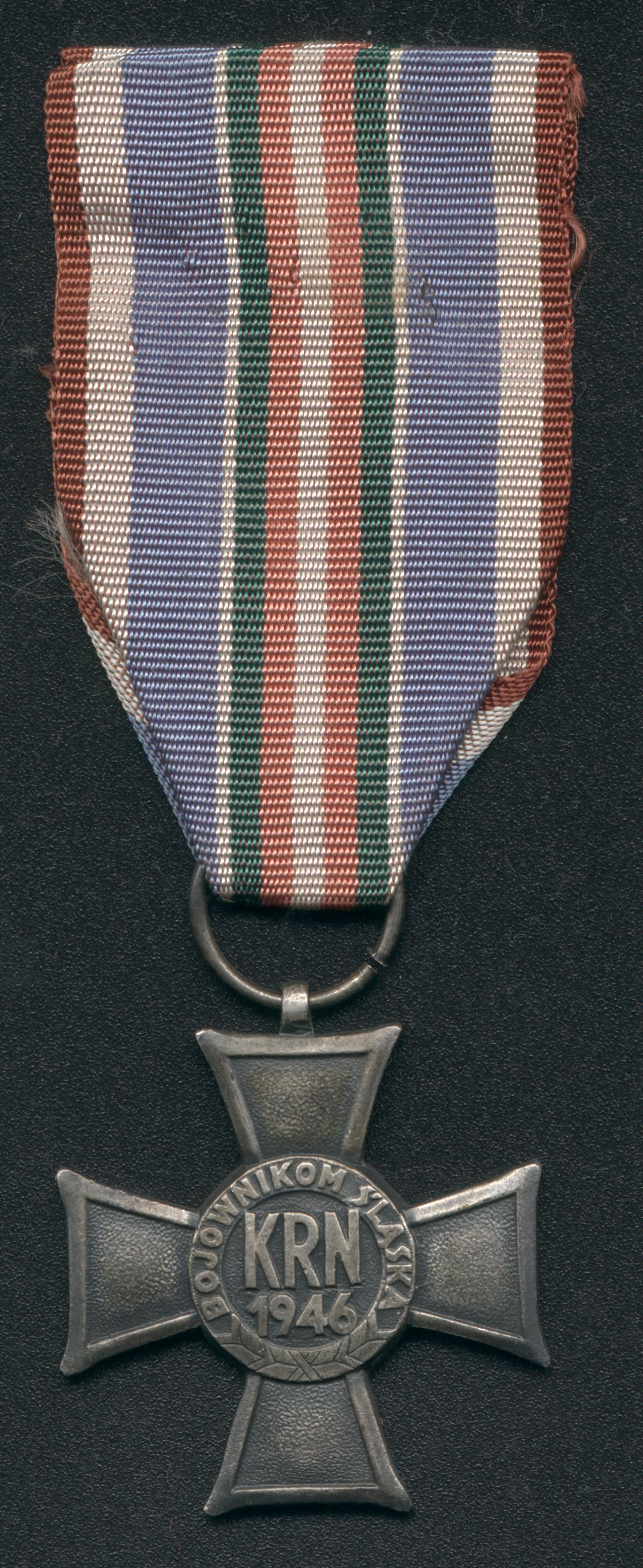 Silesian Uprising Cross